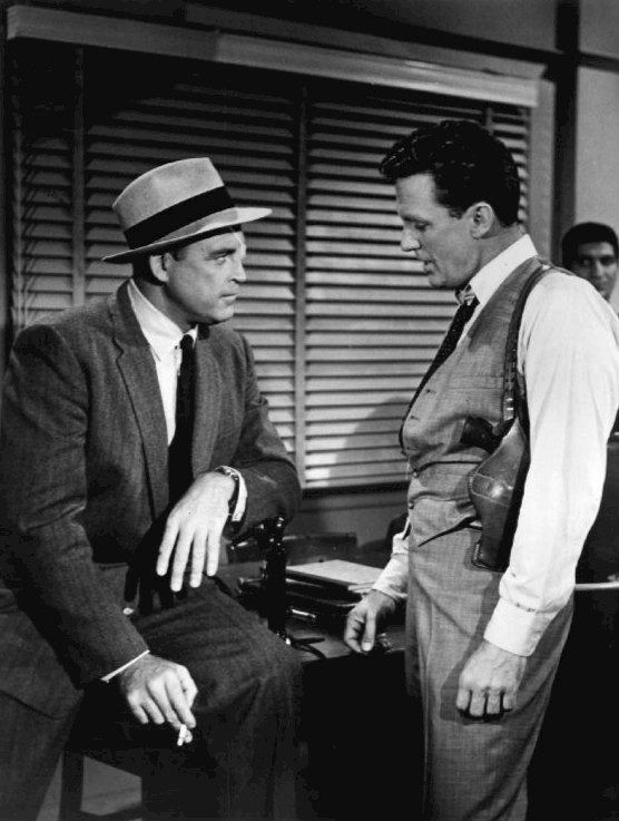 Photo of Scott Brady as famed Chicago Tribune reporter Floyd Gibbons and Robert Stack as Eliot Ness from the television program The Untouchables. In this episode, Gibbons offers Ness his help on one of Ness' cases.